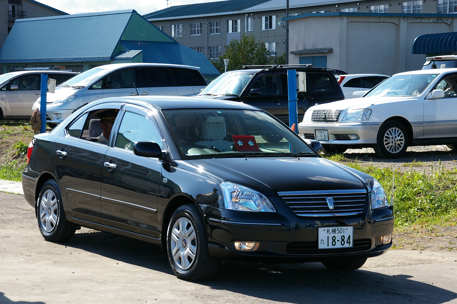 JGSDF Gyoumusha 3go Toyota Premio.